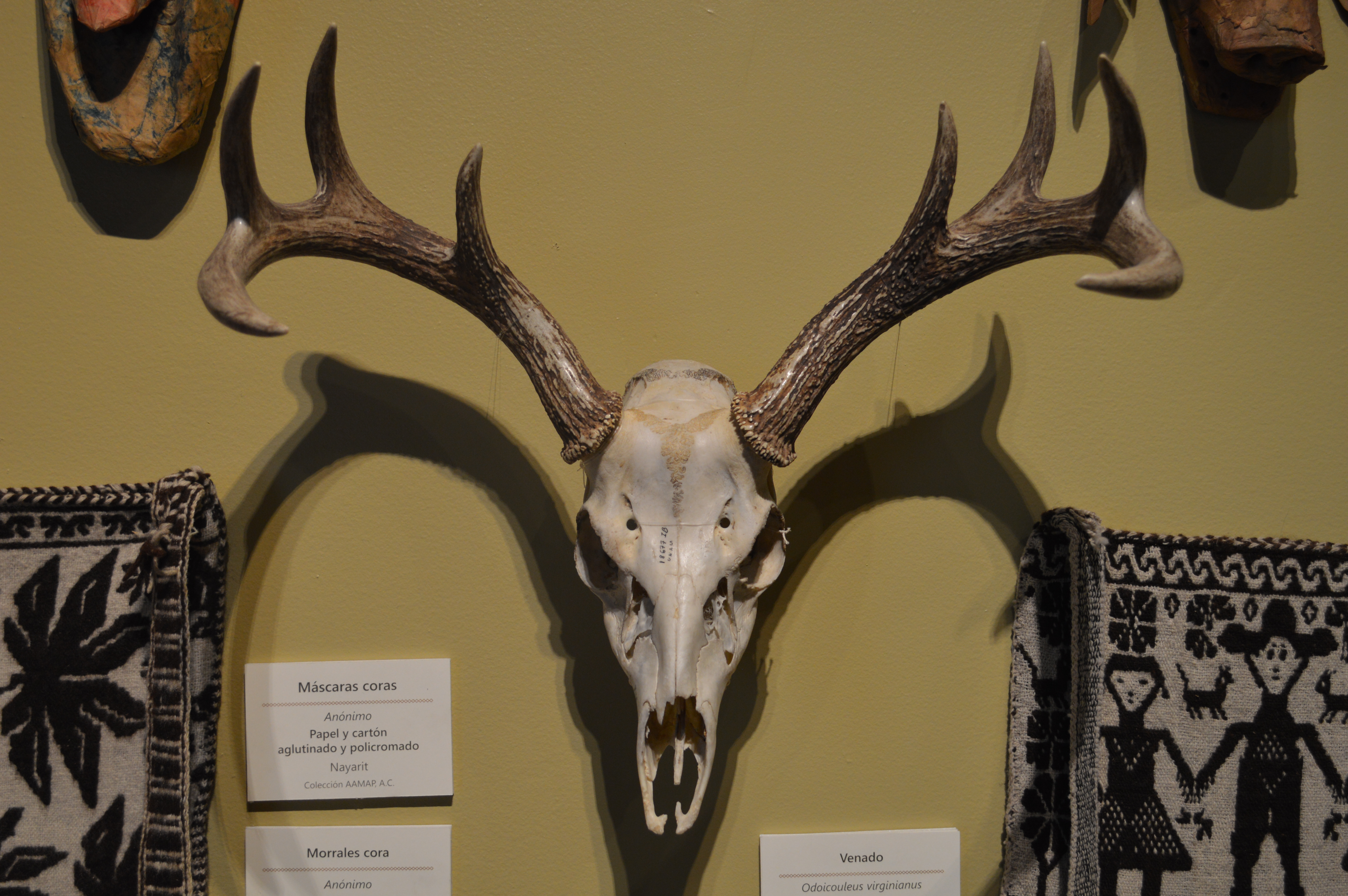 Deer skull (odoicouleus virginius) at the El Norte, su materia, su artesanía at the Museo de Arte Popular in Mexico City